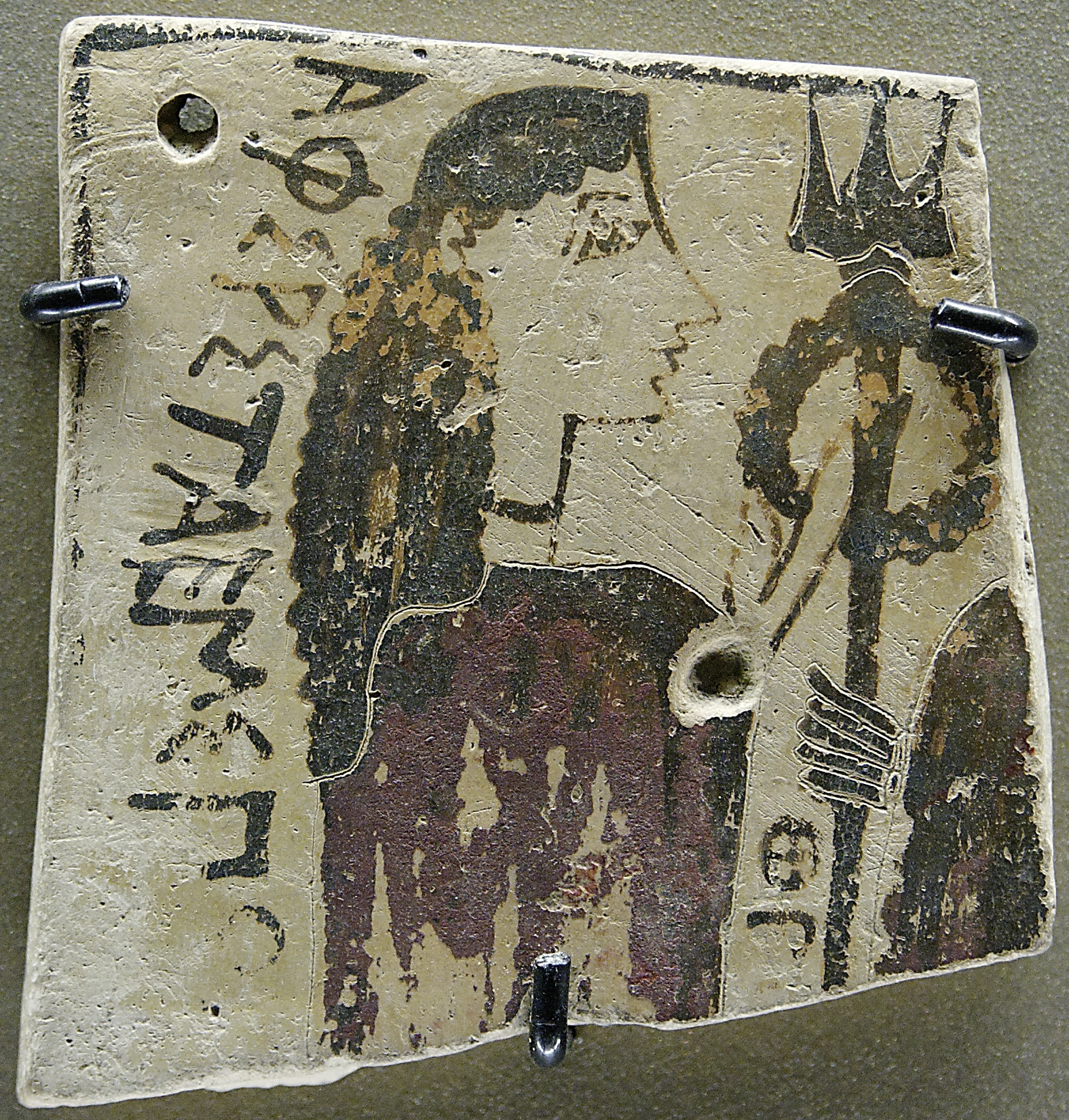 Amphitrite. Corinthian plaque, 575–550 BC. From Penteskouphia (Wachter, NAVI COP 5).